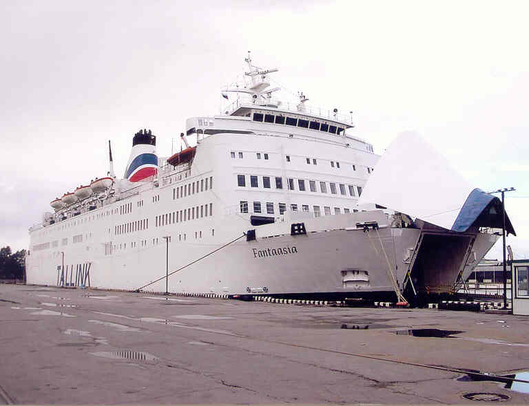 M/S Fantaasia in St. Petersburg IMO: 7807744 MMSI: 276214000 Call sign: P3VS7 Length: 136 m Beam: 24 m